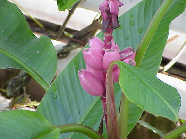 Species: Musa sp. Family: Musaceae Image No. 2